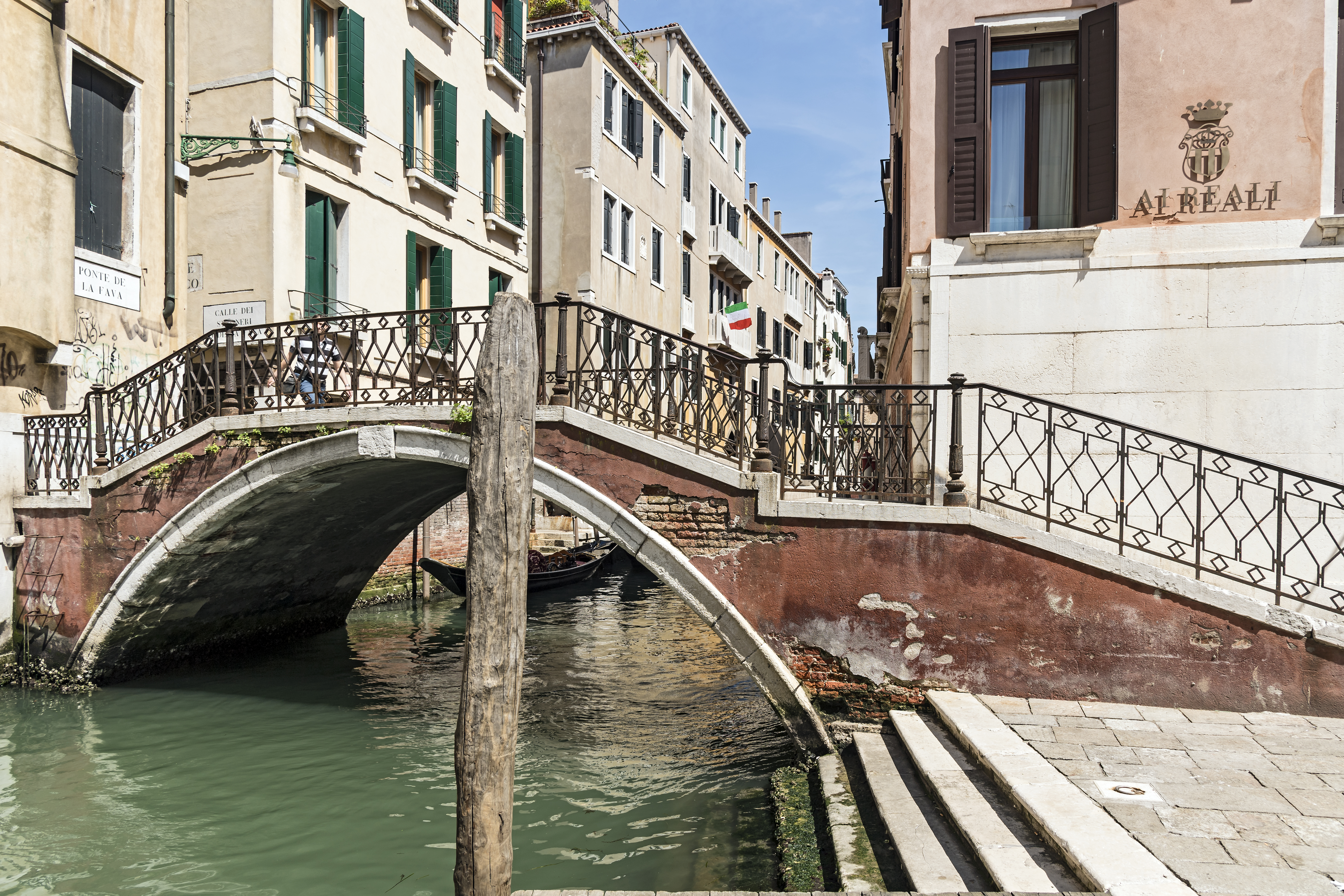 Ponte de la Fava on Rio della Fava in Venice. Southern exposure.